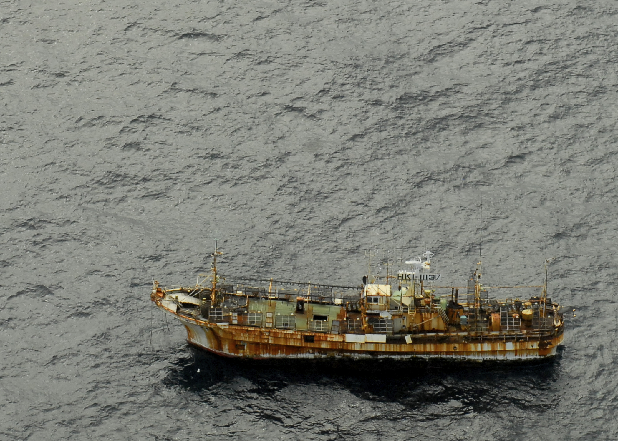 GULF OF ALASKA - The Japanese fishing vessel Ryou-Un Maru drifts northwest unmanned and unlit approximately 170 nautical miles southwest of Sitka April 4, 2012. The vessel was first sighted in Canadian waters more than a week ago and at present course and speed is not in danger of grounding in the near future. U.S. Coast Guard photo by Petty Officer 1st Class Sara Francis.